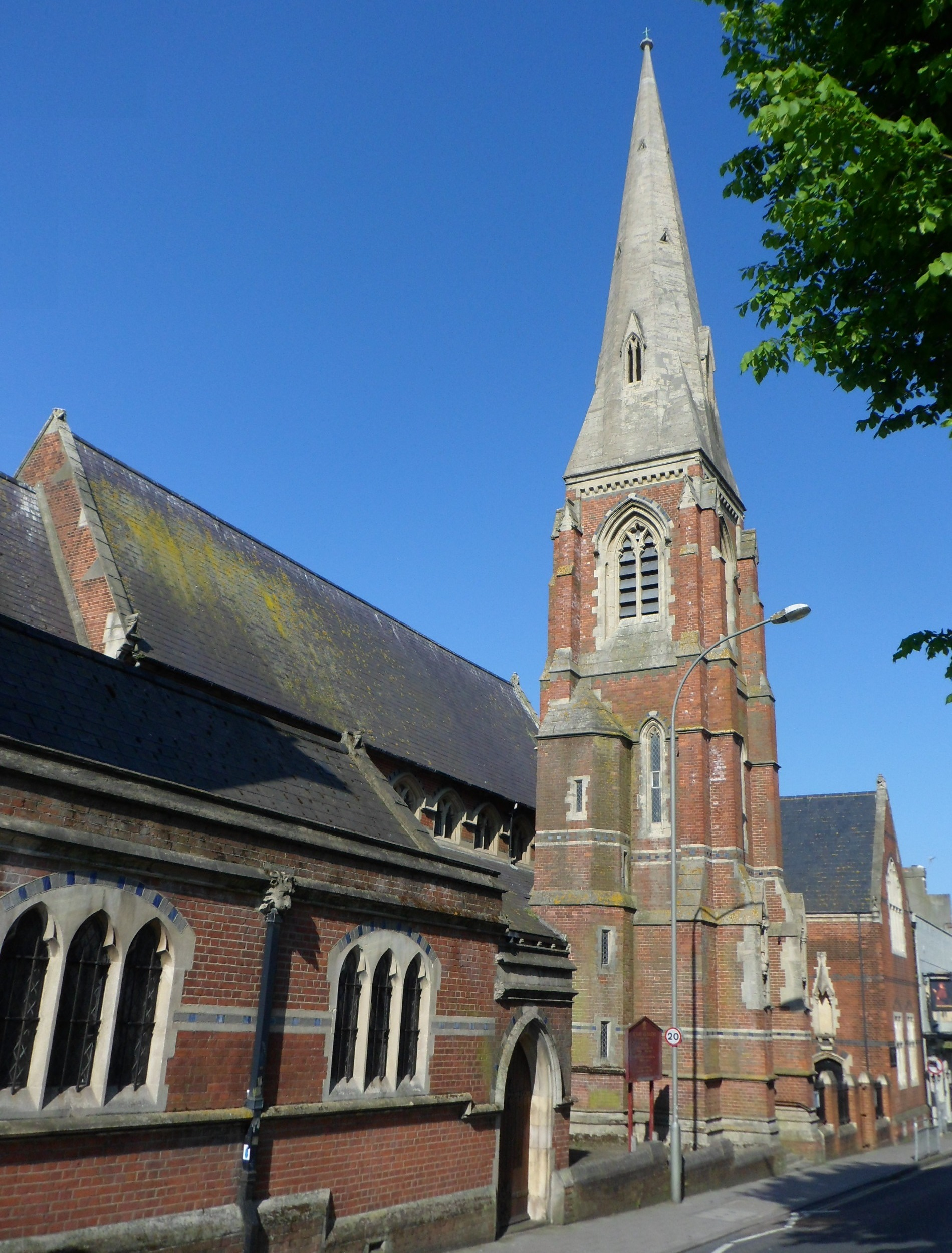 Roman Catholic church of St Mary Magdalen, Upper North Street, Brighton, England, seen from the east